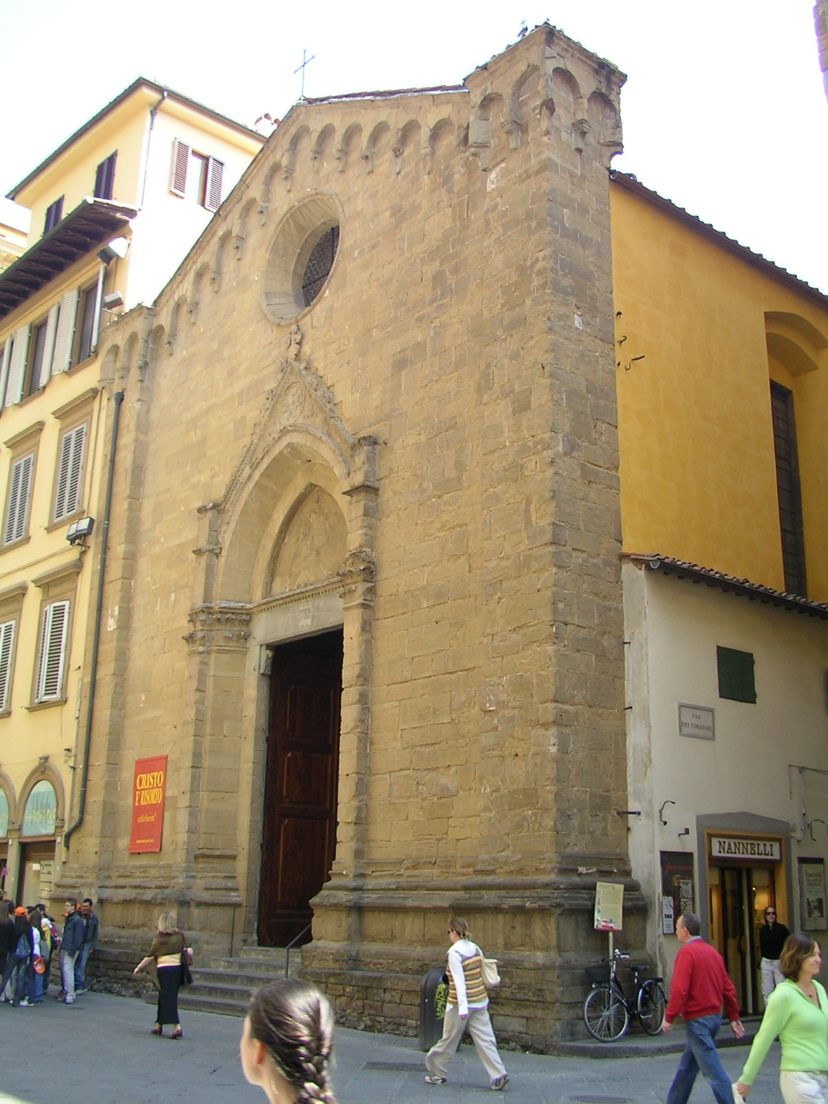 San Carlo dei Lombardi church (front) in Florence, Italy